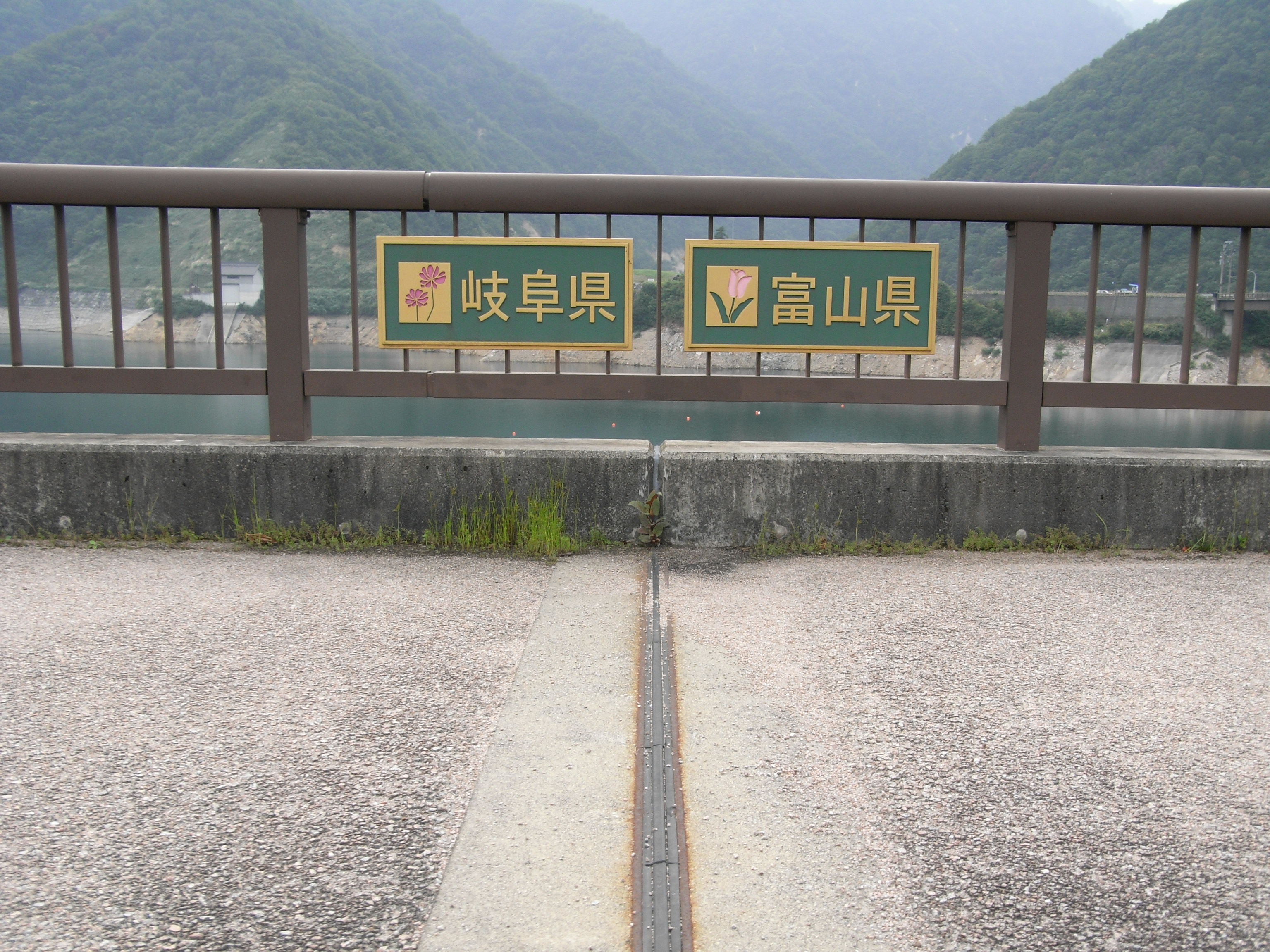 A part of border of Toyama prefecture and Gifu prefecture on Sakaigawa Dam.